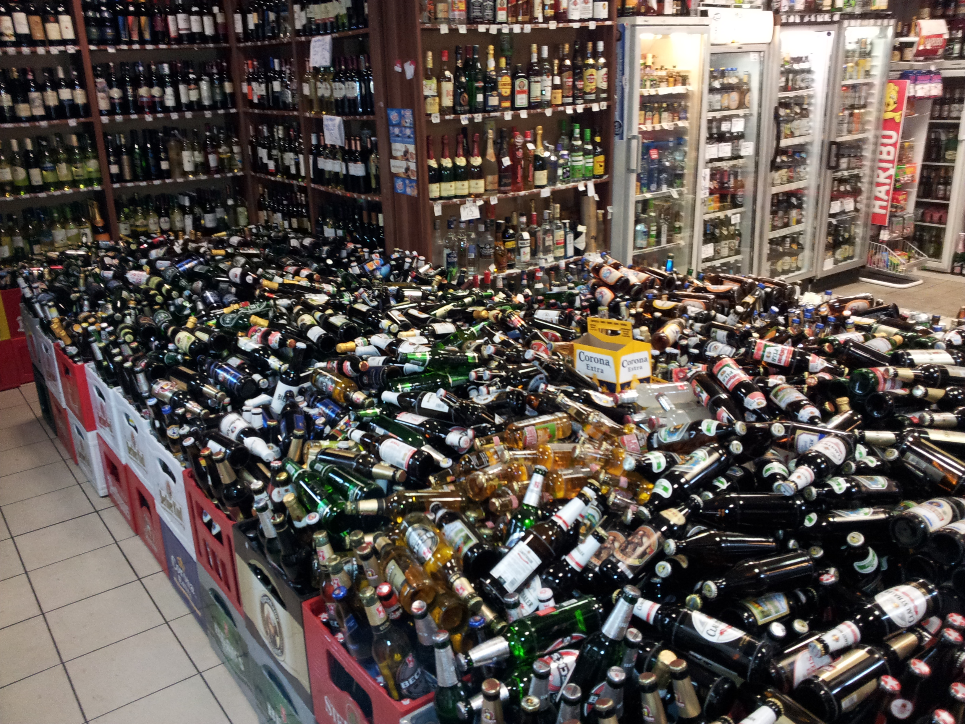 Interior of a "Spätkauf" store in Berlin